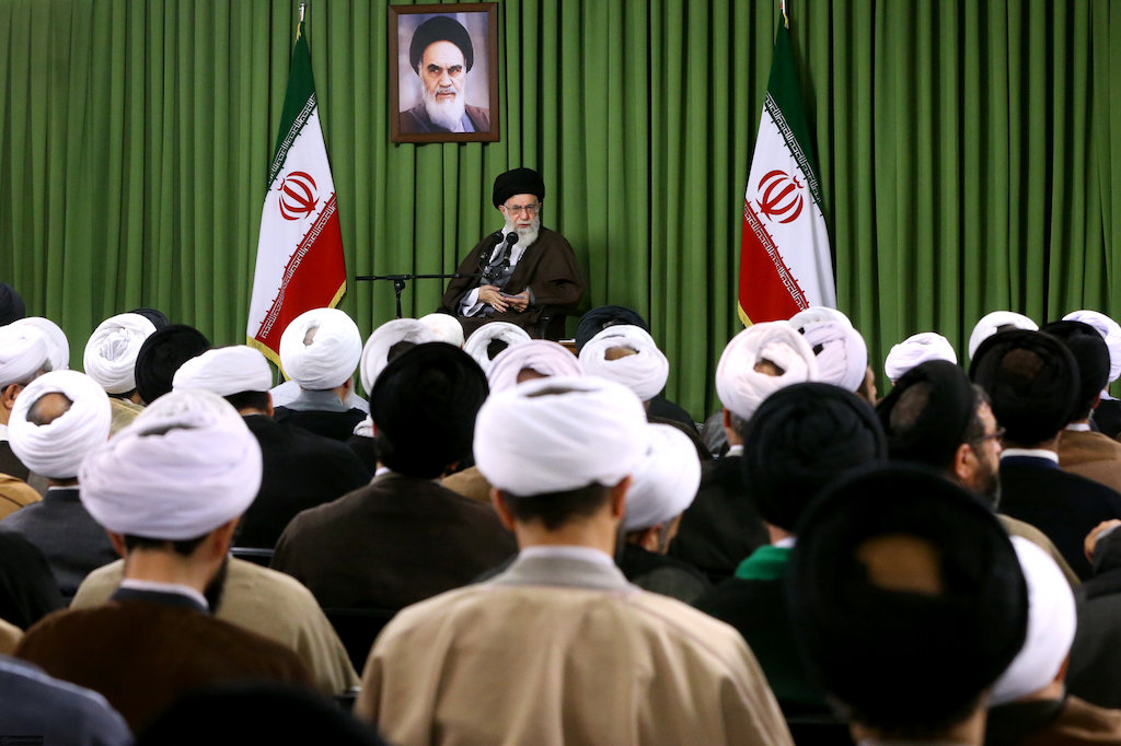 Qom Seminary's students met Ali Khamenei on 15 March 2016.